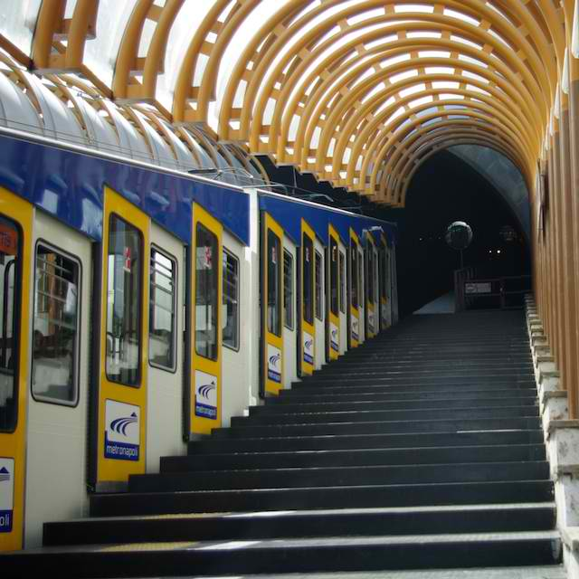 Funicolare in Naples - Italy.